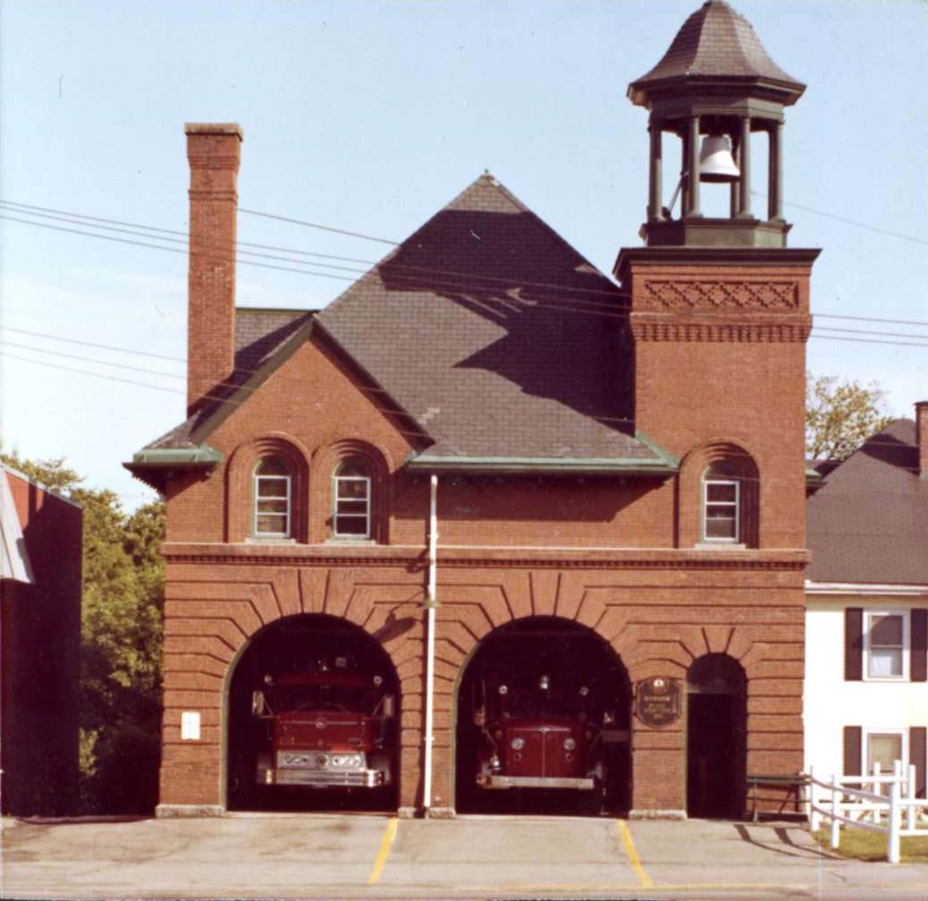 Engine and Hose Co. No. 5 Firehouse (1897), Bangor, Maine, U.S.A.; Wilfred Mansur, architect; National Register of Historic Places